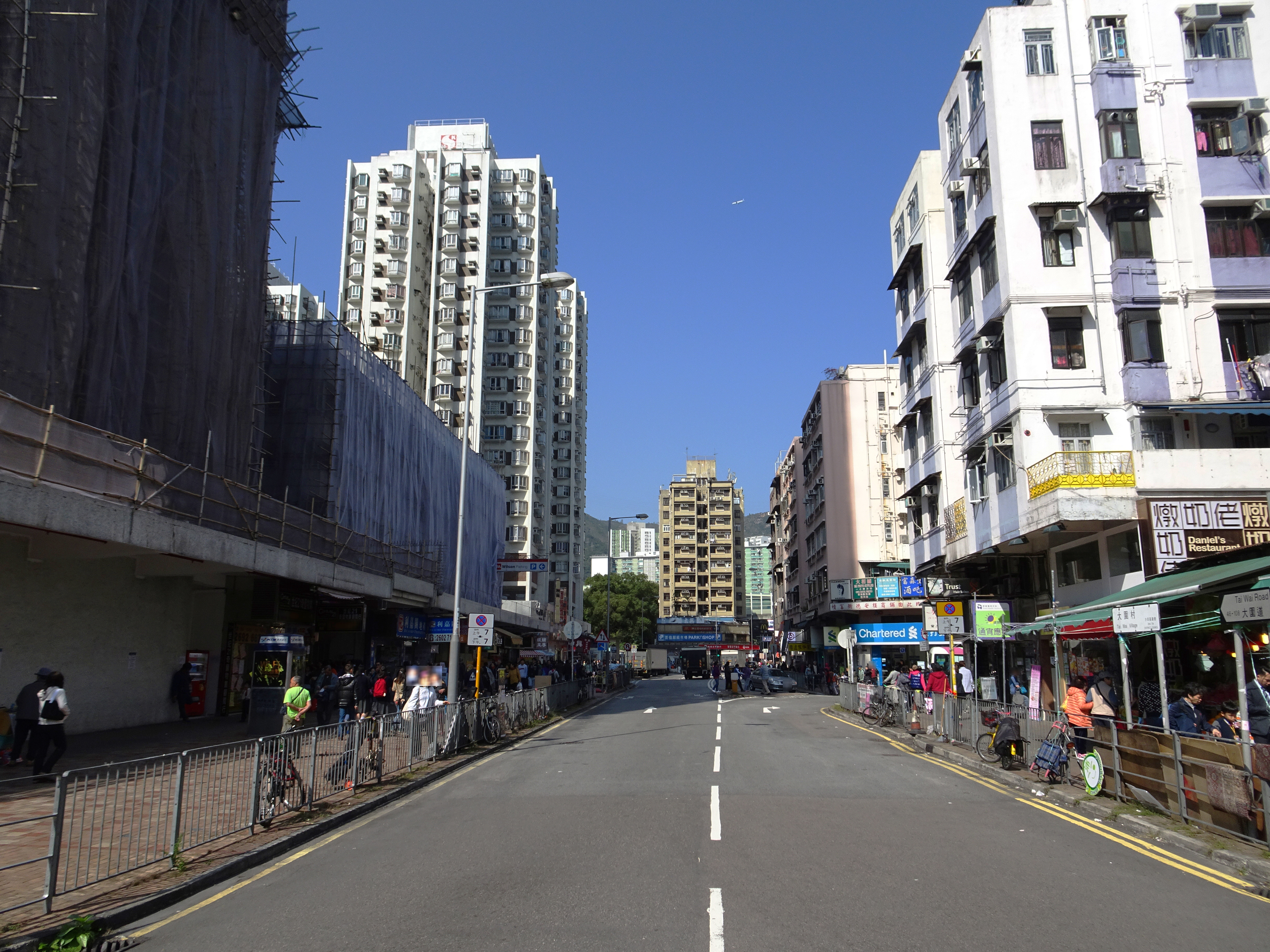 Tai Wai Road in Tai Wai, Hong Kong.